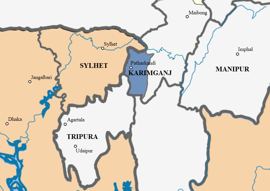 Adapted from this image by SlowPhoton under the Creative Commons Attribution-Share Alike 3.0 Unported license. The map has been reworked from the original by having been cropped, partially recoloured, with the addition of place names and a regional border as well as the removal of some district borders. It depicts a map of Karimganj district and surrounding areas which are relevant to the history of the Pratapgarh Kingdom.